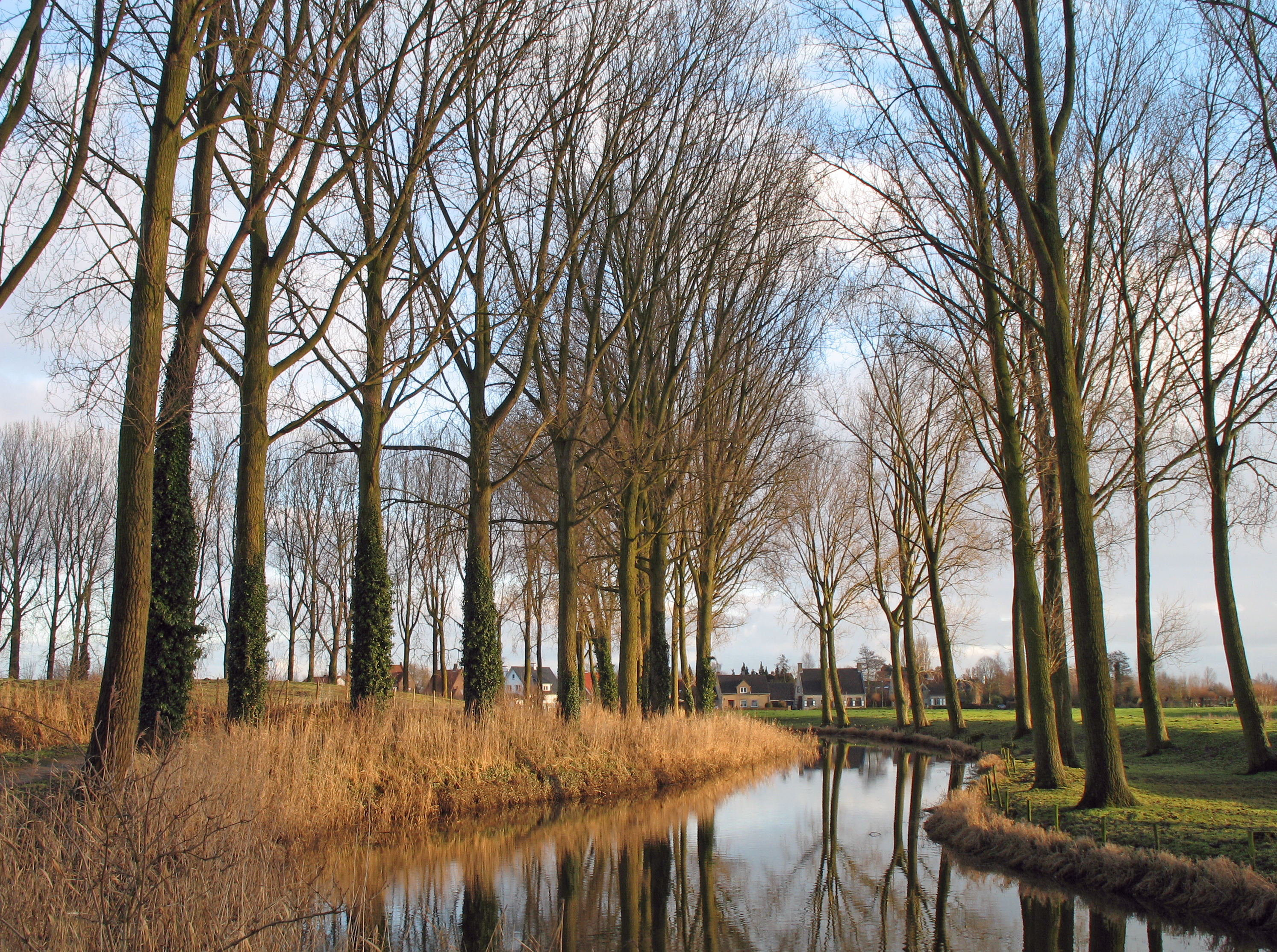 Damme (Belgium): Zuidervaartje canal